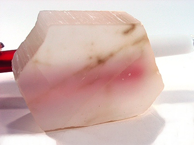 Ulexite Locality: Boron, Kramer District, Kern County, California, USA (Locality at ) This is a great example of the transparent and colorless mineral known as "TV rock" because it has optical properties like fiber-optic cable. It is transparent along the perfect vertical axis, while opaque along other axes. When polished, as this is, you can hold it over writing and witness this phenomenon. Is this a fine mineral specimen? No, not really. But it is really "neat" material and I wasn't sure those outside of California had been exposed to it. It does get sold widely to museums and rock shops, again labelled as "tv rock" or "fiber-optic rock". Fun for kids... 5.3 x 3.7 x 1.5 cm